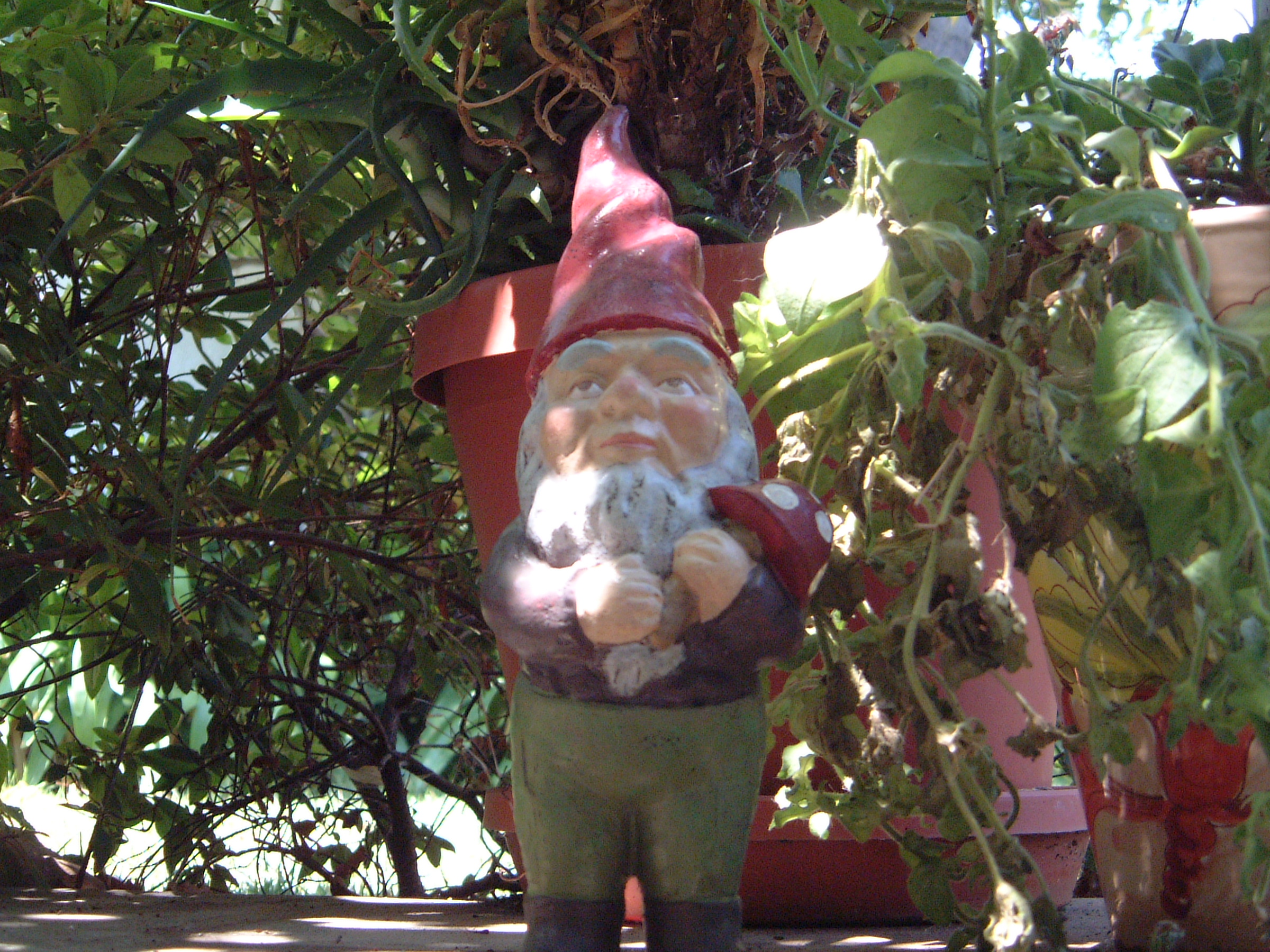 A garden gnome with a mushroom